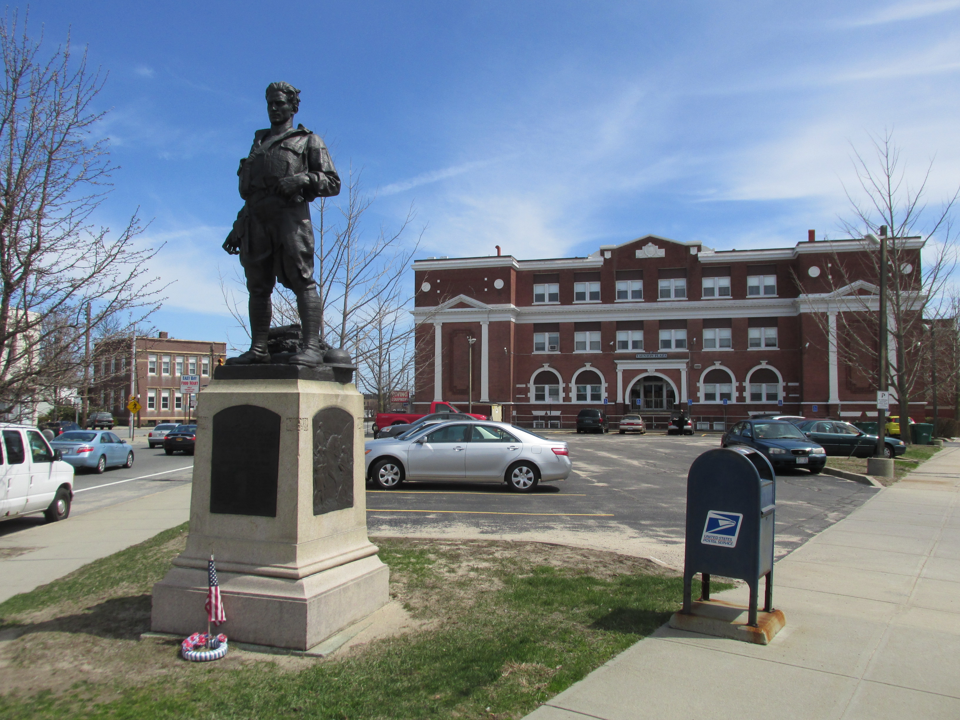 World War I Memorial and Taunton Plaza, at the triangle created by Route 44 (Taunton Avenue), Whelden Avenue, and Broadway, East Providence Rhode Island